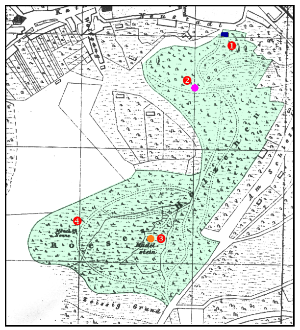 A map of the park Roesessches Hölzchen in Eisenach.